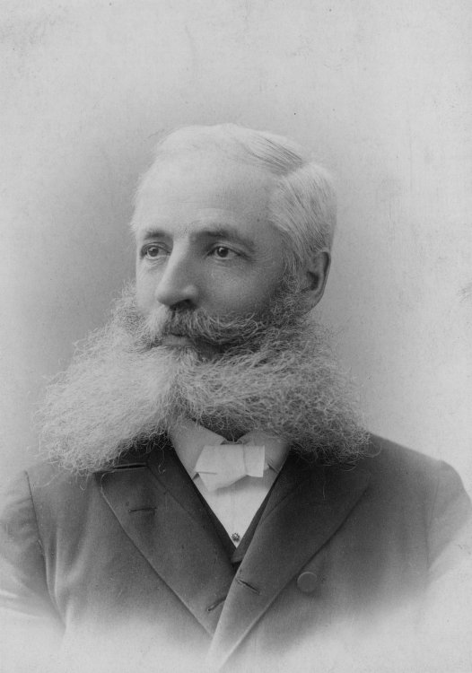 Picture of Henry Mitchell MacCracken